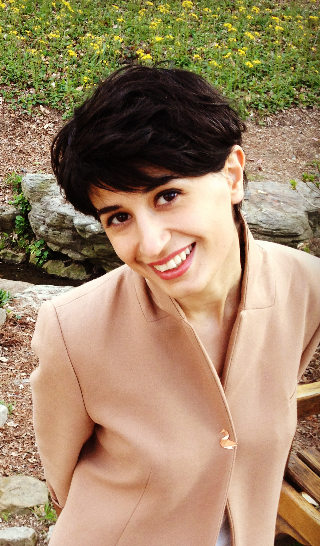 This is a photograph of Mehrafza Mirzazad Barijugh